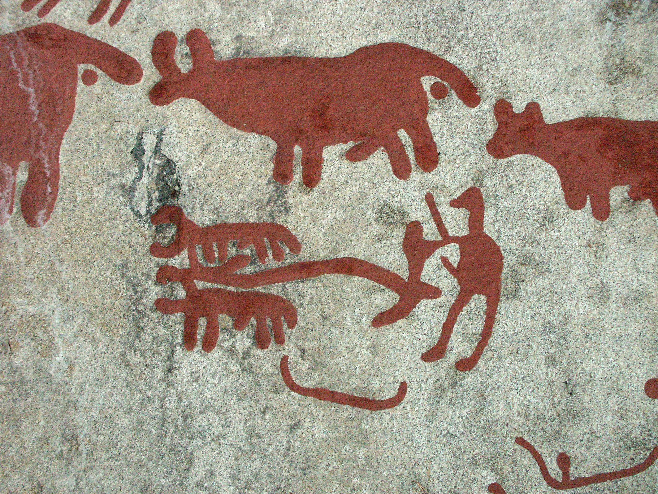 Rock carving area from the bronze age in the parish of Tanum, Bohuslän, a part of Sweden.